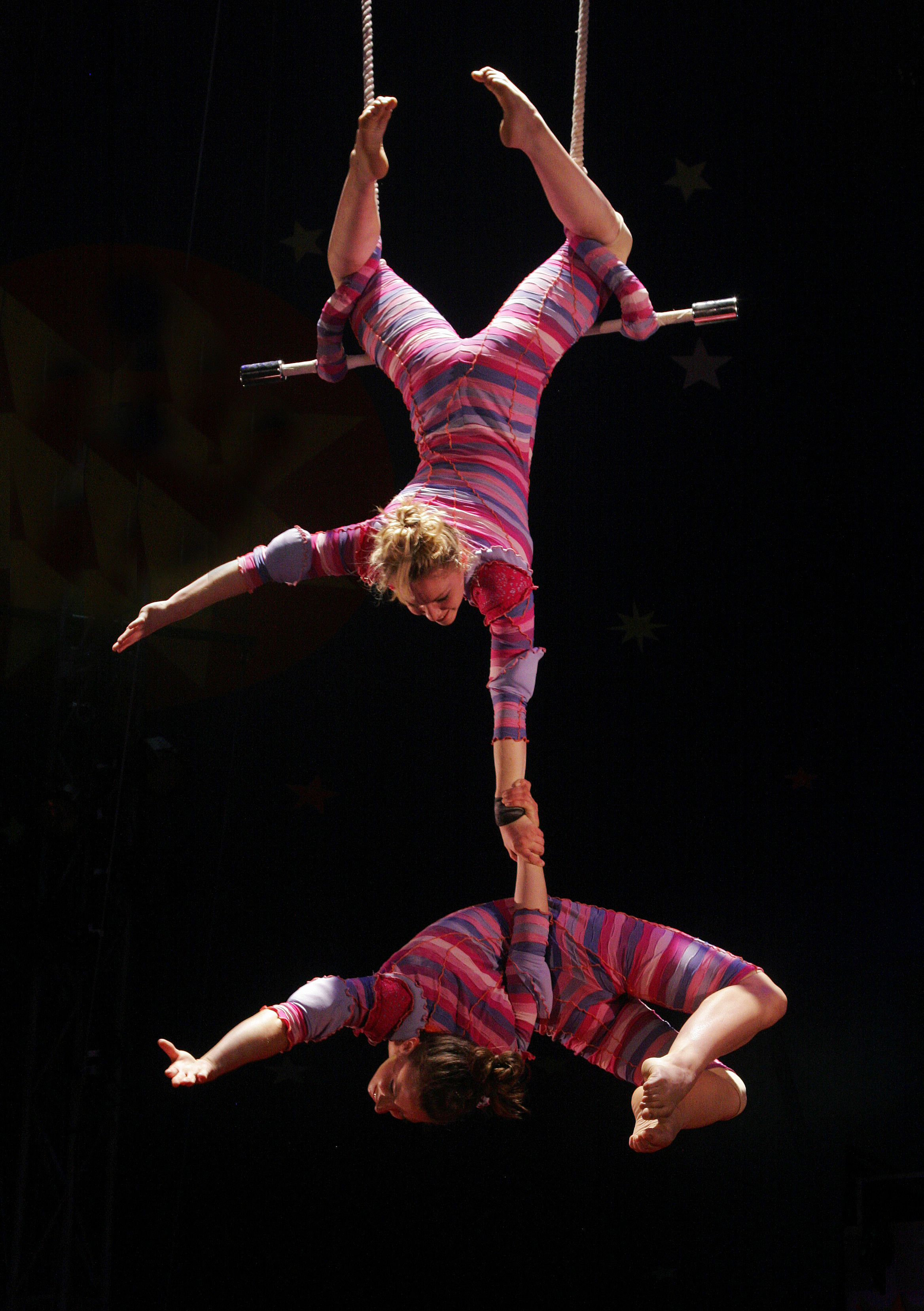 Trapeze artists Kia and Lindsay at Circus Smirkus